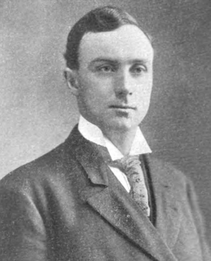 James A. Hamill (New Jersey Congressman)